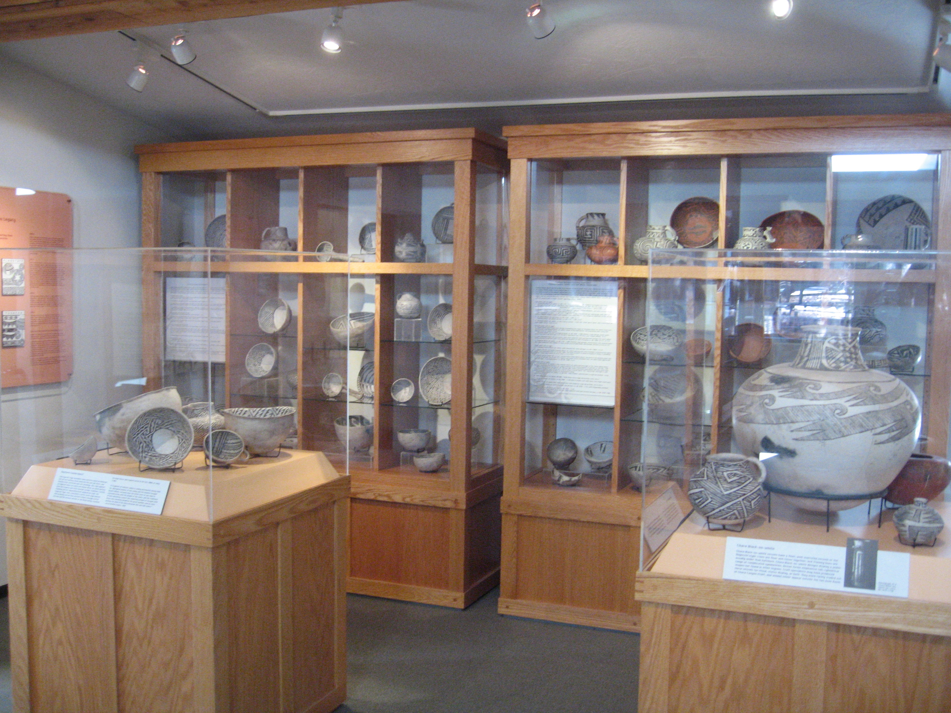 Babbitt Gallery display of prehistoric and contemporary ceramic vessels at the Museum of Northern Arizona in Flagstaff, Arizona